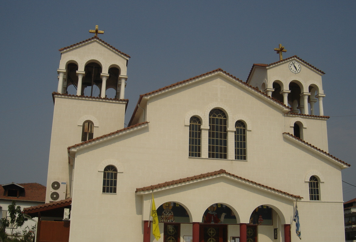 Church of Saint Antonios, at Svoronos.